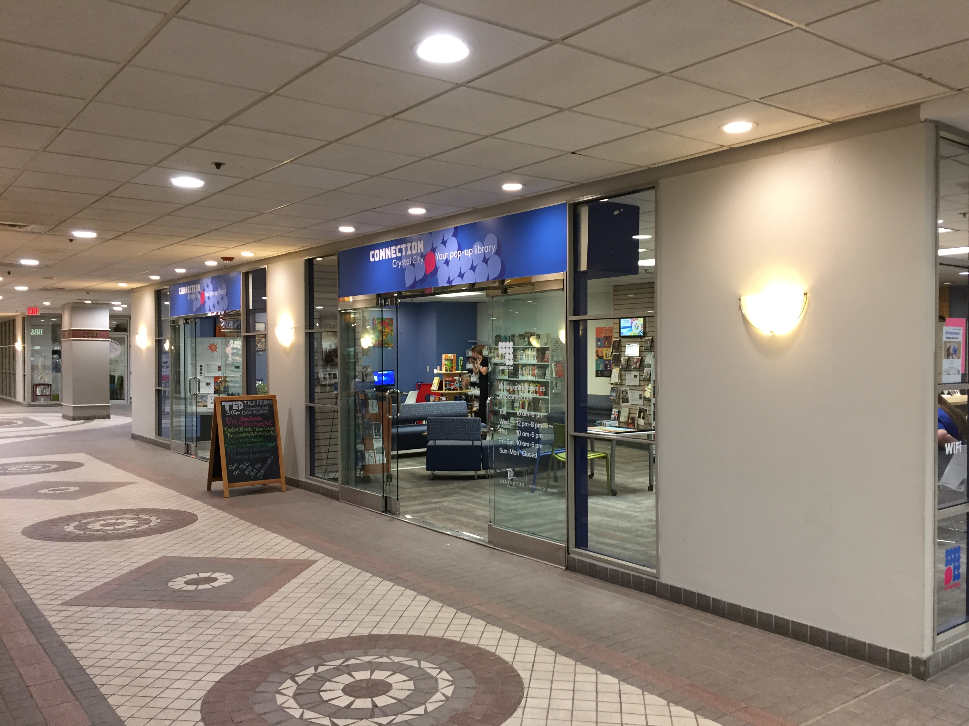 Connection Crystal City Library of the Arlington Public Library in Crystal City, Arlington, Virginia in 2017